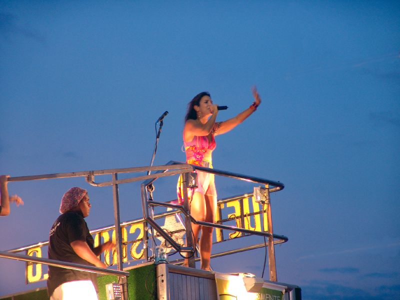 Ivete Sangalo in Jaguariúna 2008.